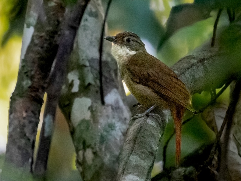 Para Foliage-gleaner; Carajas National Forest, Pará, Brazil